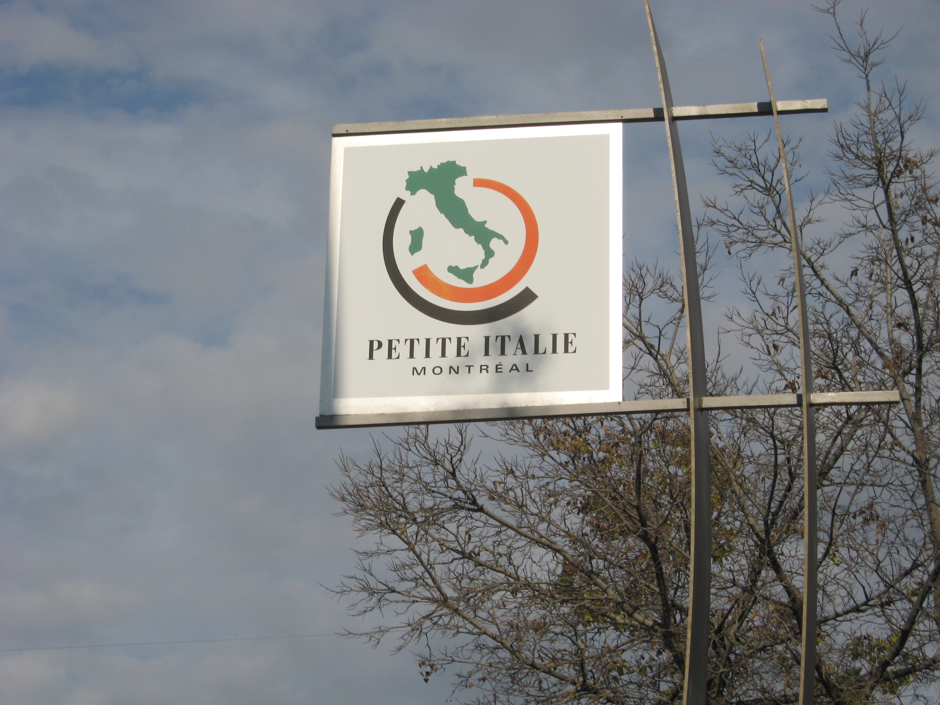 Little Italy of Montreal entrance sign